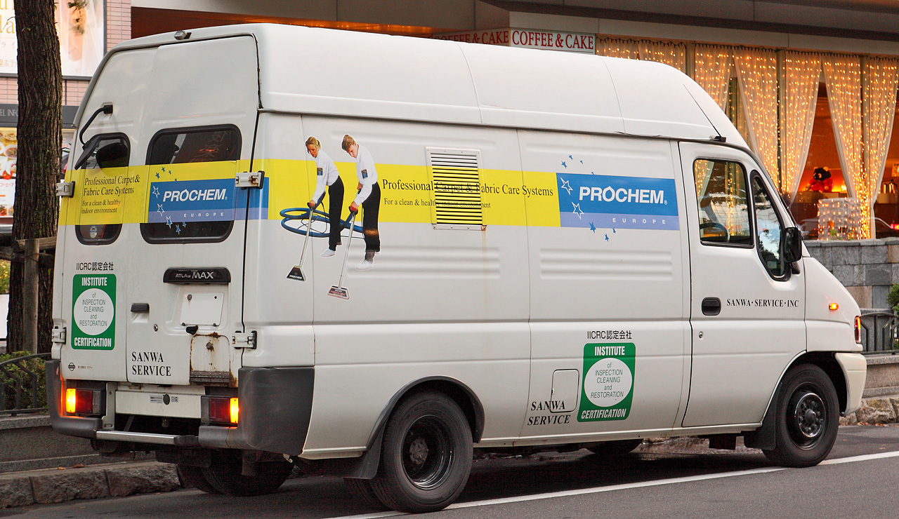 1998 - 2002, Nissan Atlas Max 1.5t